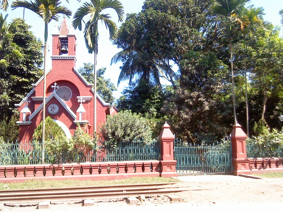 it is a church in Saidpur, Bangladesh.